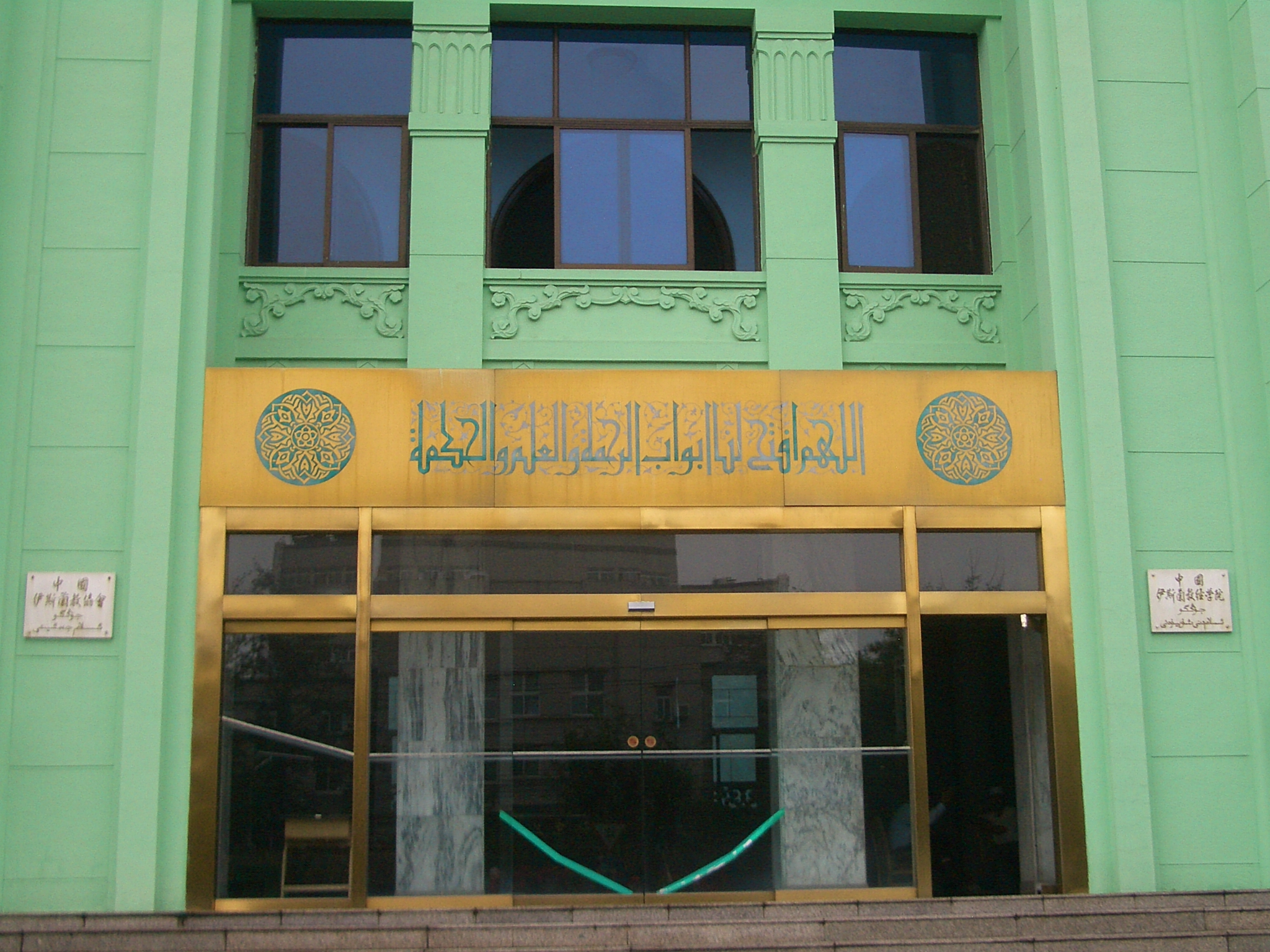 The building of the Islamic Association of China (a national Islamic association) in Beijing, one block east of Niujie Mosque